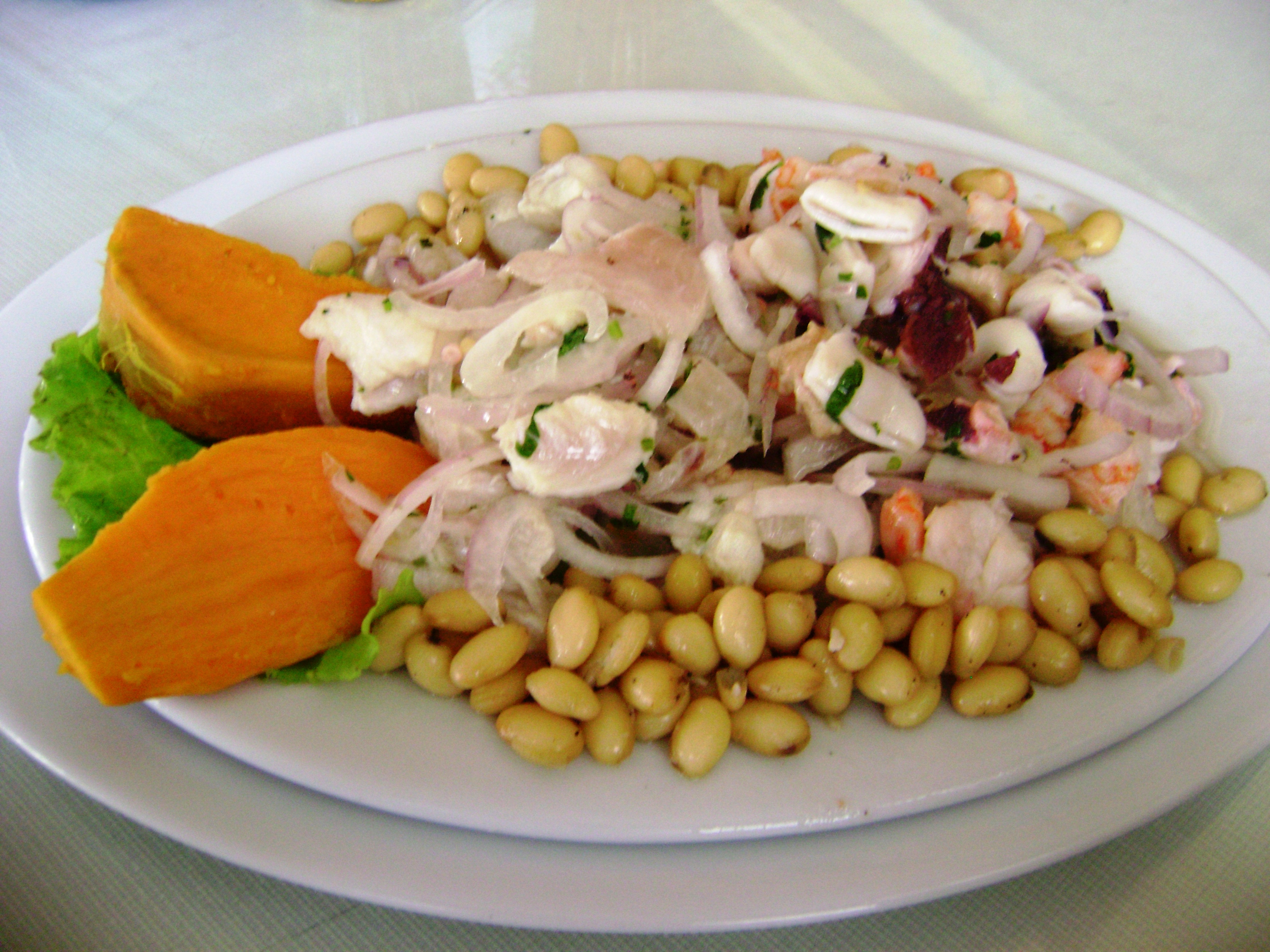 Ceviche mixto con zarandajas, typical of Piura, Peru.